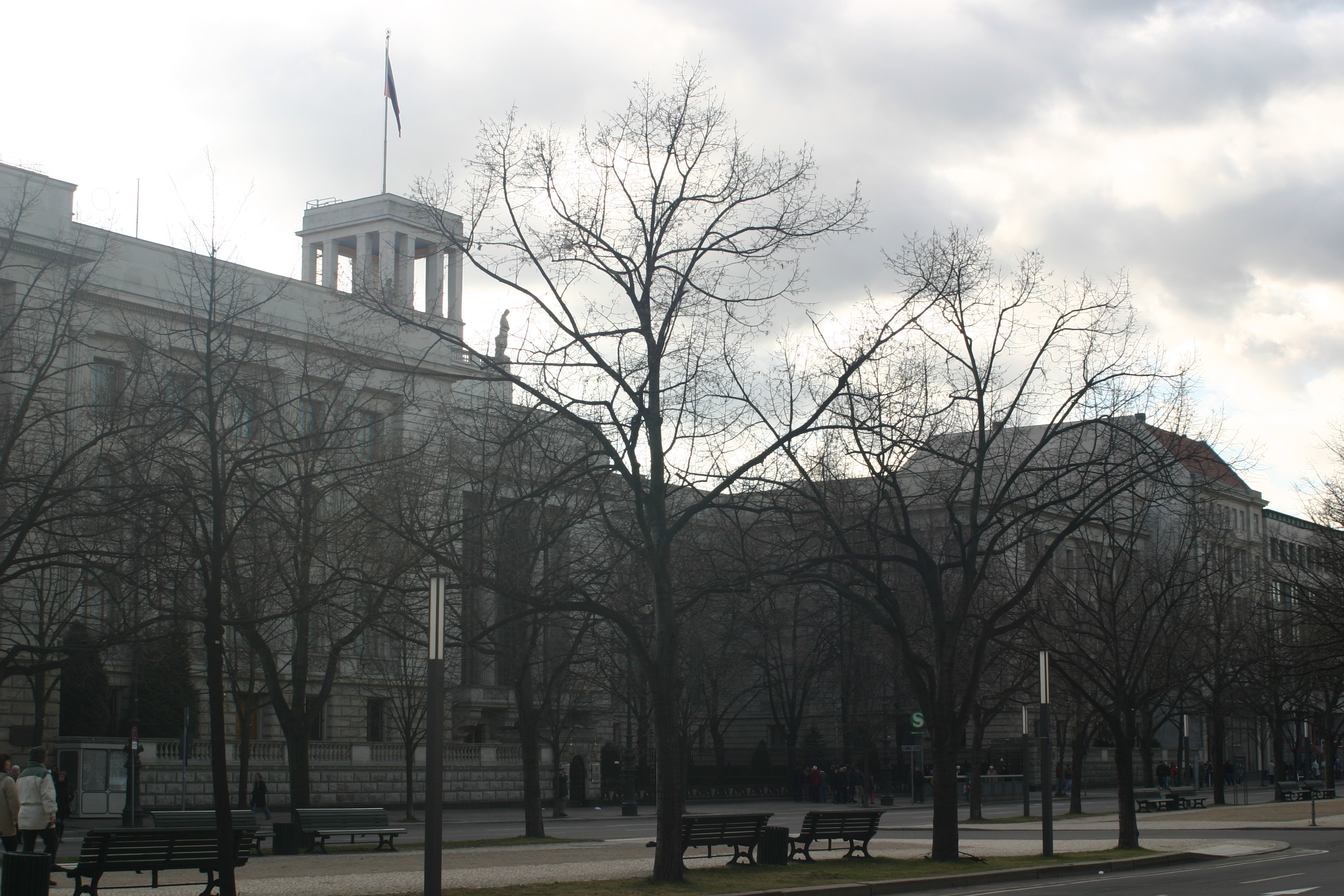 Embassy of the Russian Federation (Росси́йская Федера́ция) in Berlin